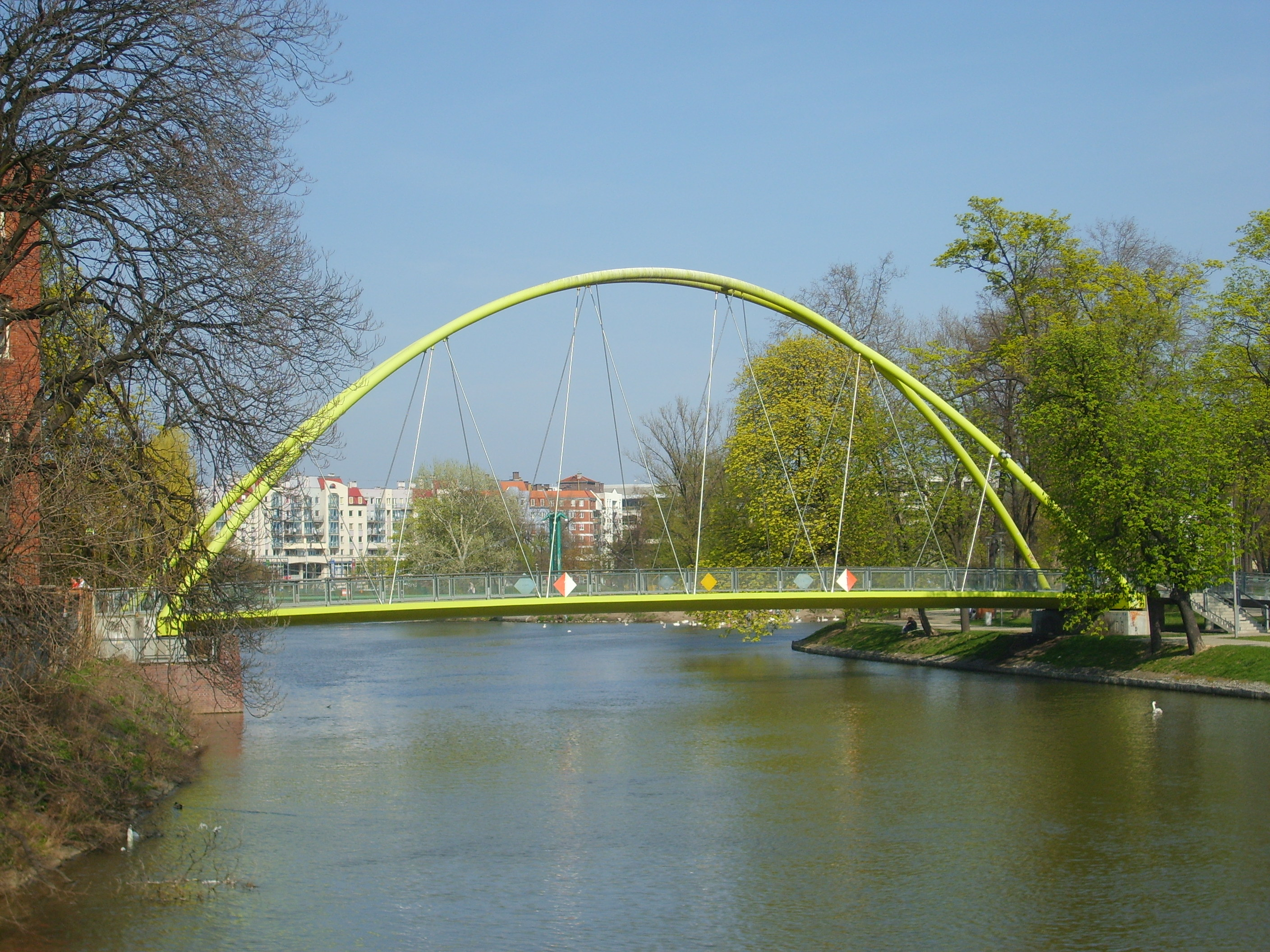 Kładka Słodowa bridge in Wrocław